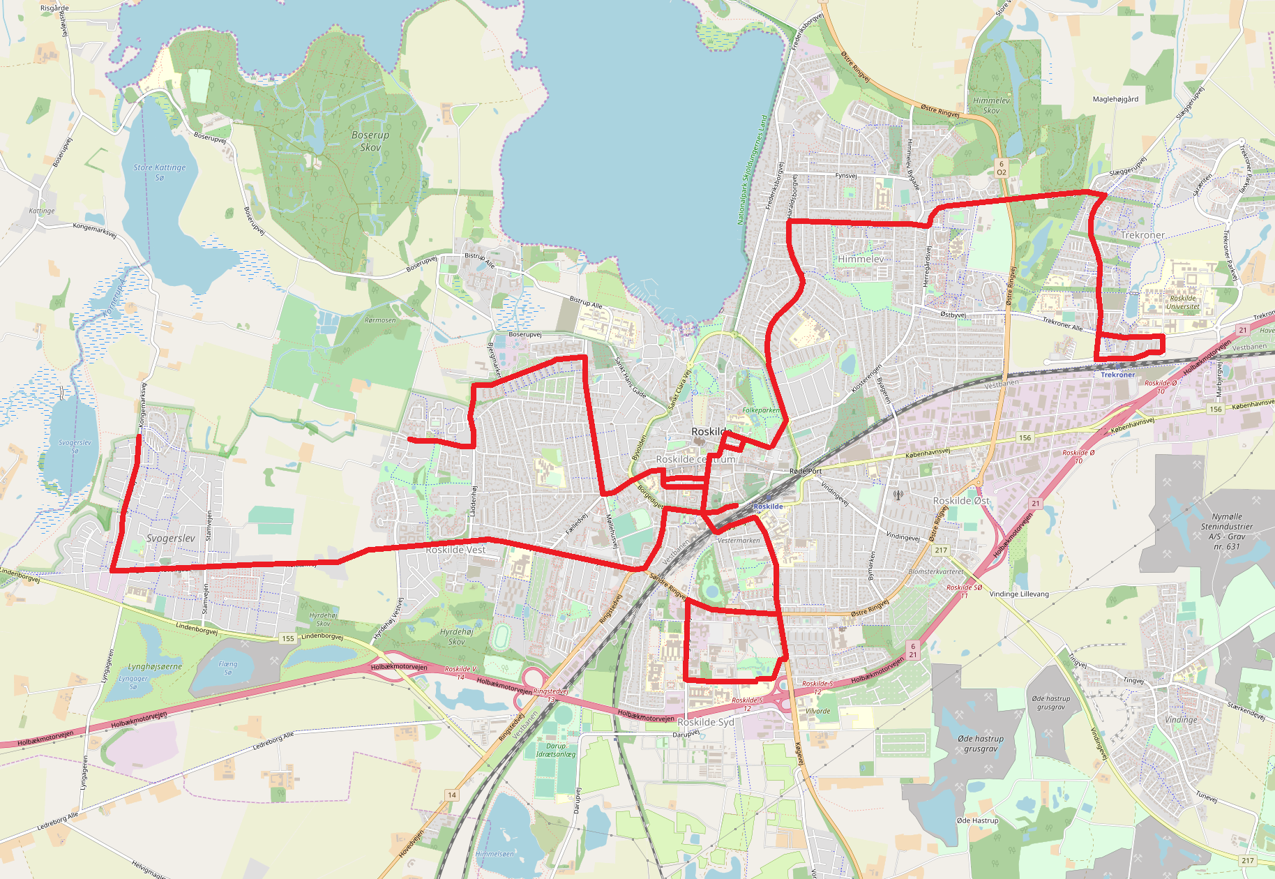 Map of the Roskilde A-bus network as of March 2019. This map may be incomplete, and may contain errors. Don't rely solely on it for navigation.